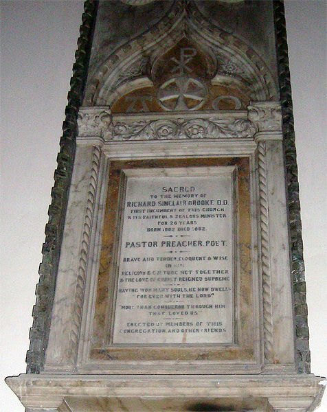 Photograph (taken by permission) of 19th-century memorial in former Mariners' Church in Dún Laoghaire.